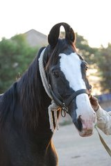 The characterstic inward curving ears of the Marwari horse